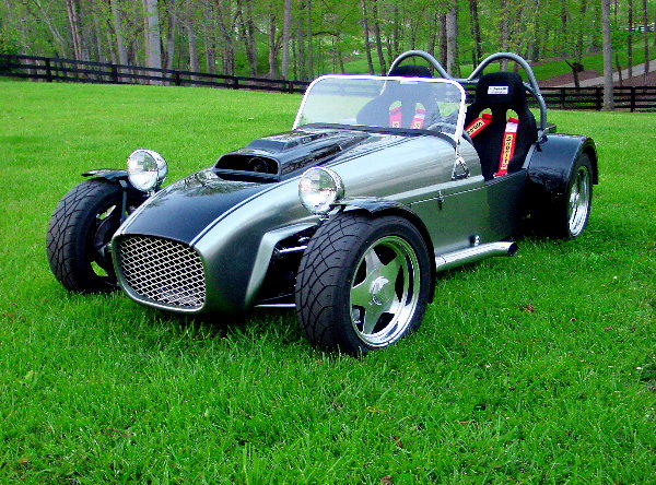 Photo of StalkerV6